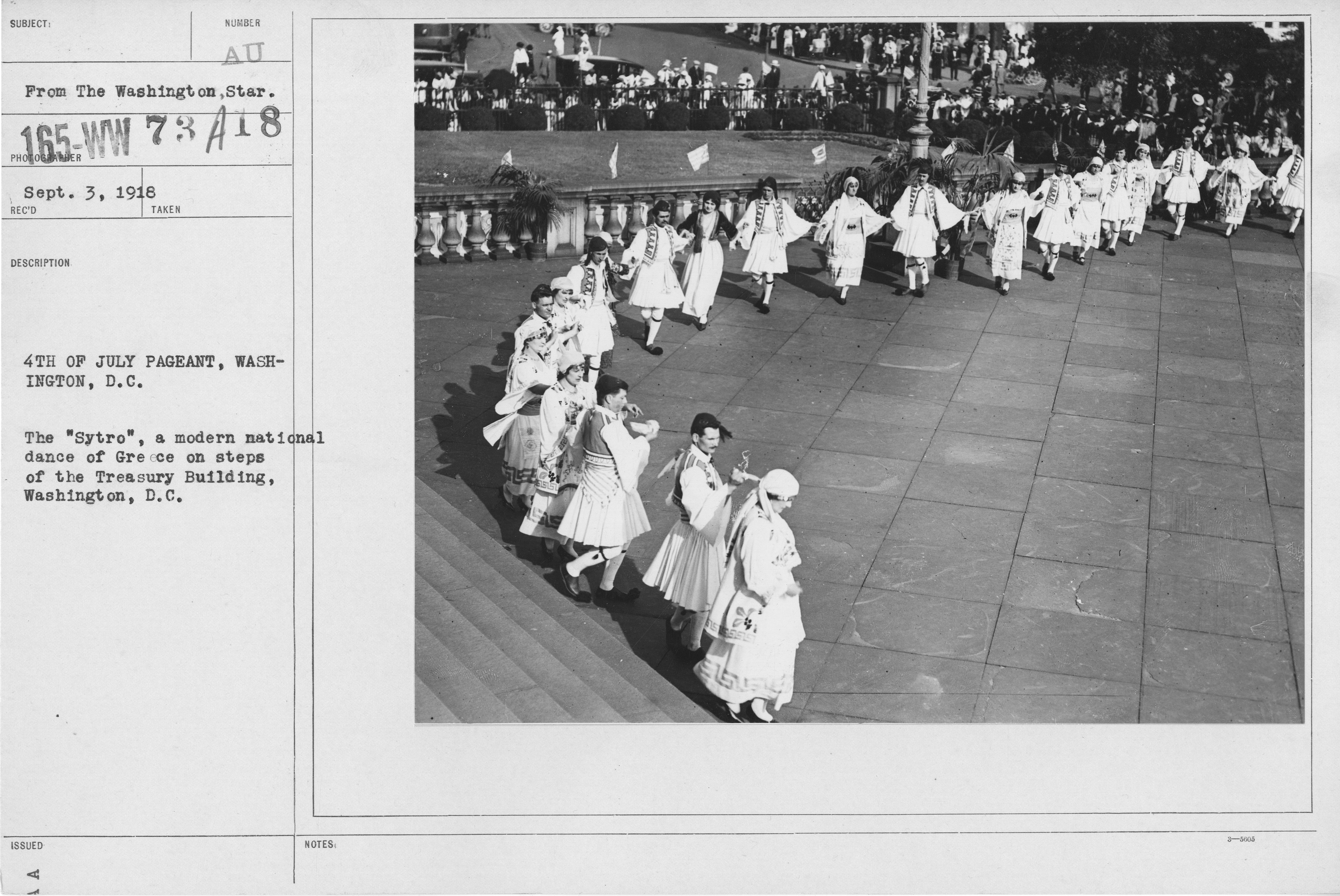 Scope and content: Photographer: From the Watshington Star